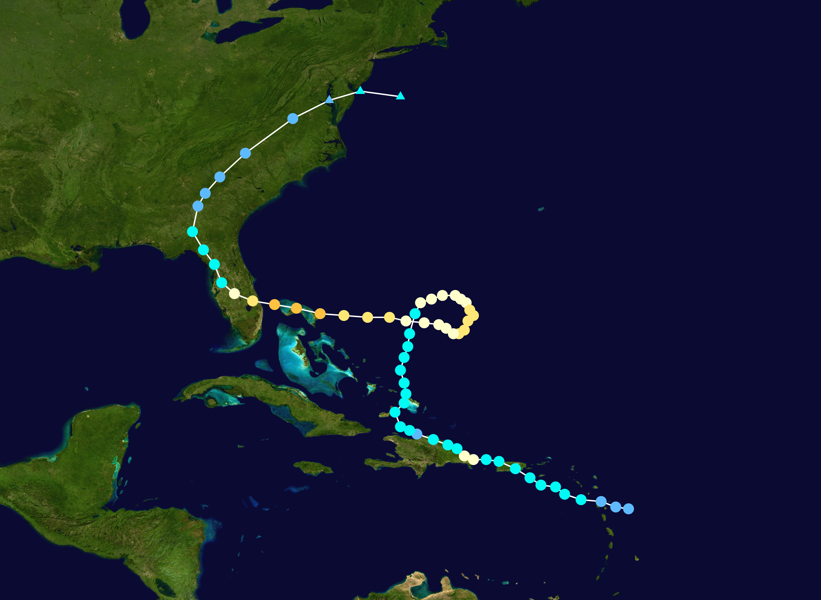 Track map of Hurricane Jeanne of the 2004 Atlantic hurricane season. The points show the location of the storm at 6-hour intervals. The colour represents the storm's maximum sustained wind speeds as classified in the Saffir–Simpson scale (see below), and the shape of the data points represent the nature of the storm, according to the legend below. Saffir–Simpson scale Tropical depression≤38 mph≤62 km/h Category 3111–129 mph178–208 km/h Tropical storm39–73 mph63–118 km/h Category 4130–156 mph209–251 km/h Category 174–95 mph119–153 km/h Category 5≥157 mph≥252 km/h Category 296–110 mph154–177 km/h Unknown Storm type Tropical cyclone Subtropical cyclone Extratropical cyclone / Remnant low / Tropical disturbance / Monsoon depression